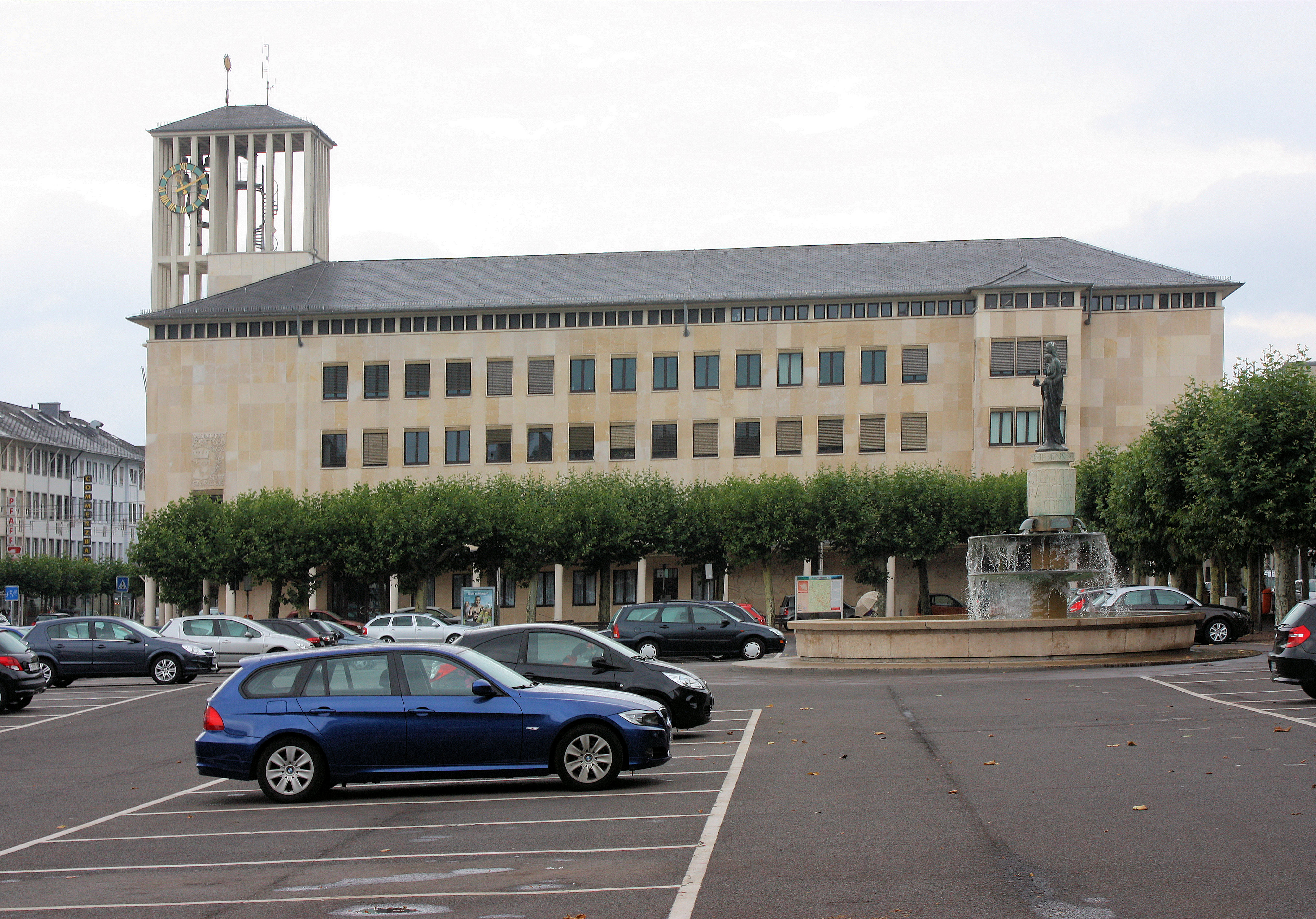 Saarlouis, the town hall and the St. Mary´s fountain